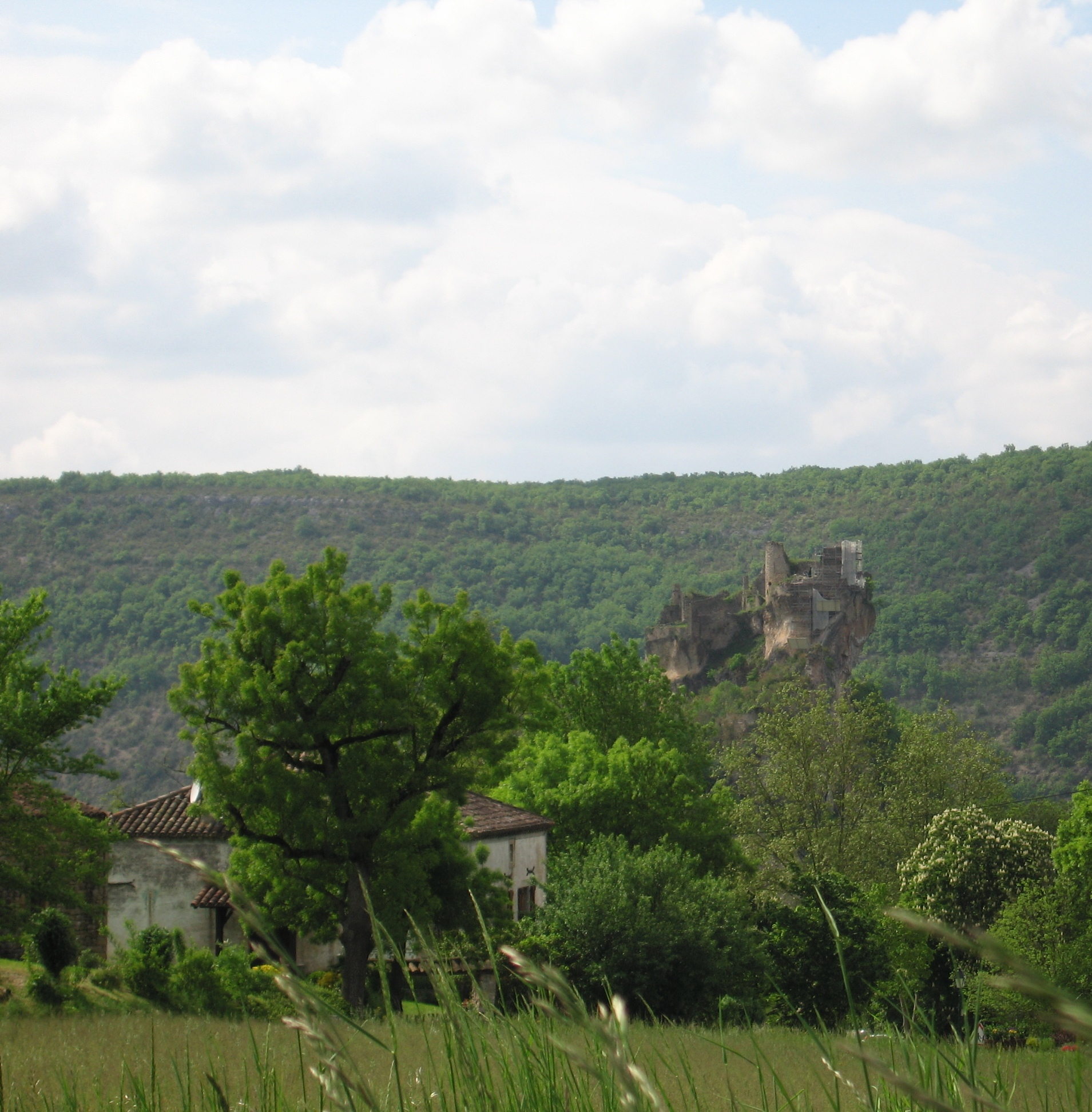 Castle of Penne, Tarn, Viewed from SouthEast by East